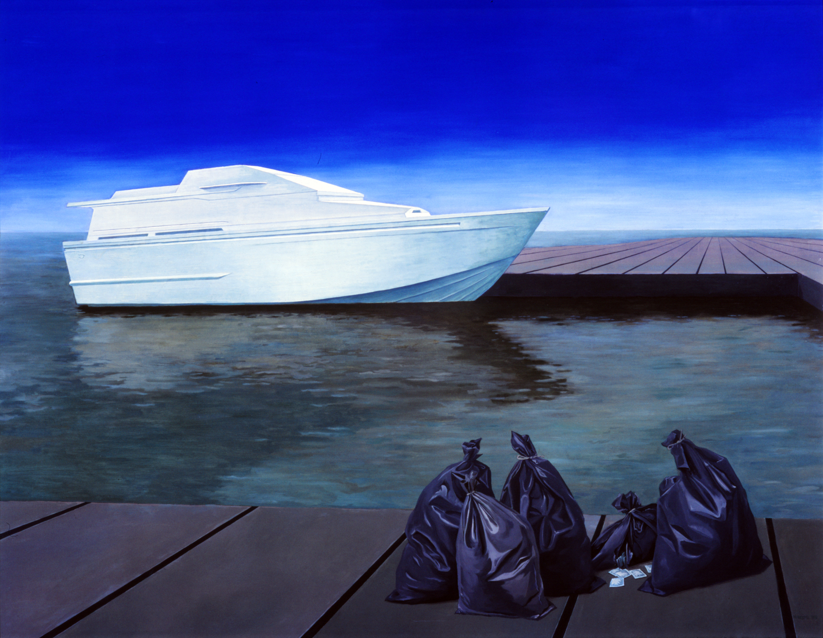 Milan Ressel, Routes II, oil 122x157 cm (1988)